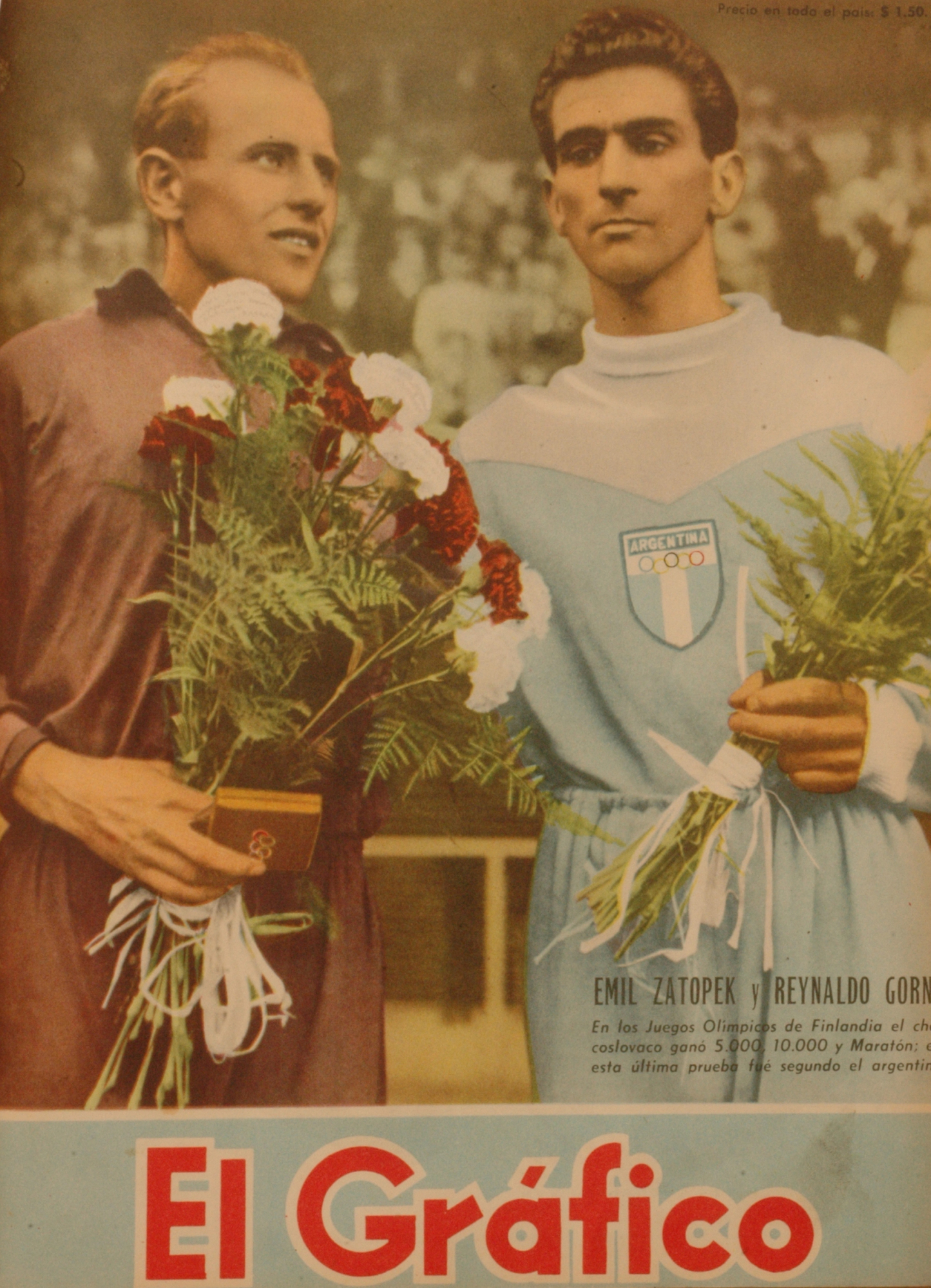 Czech Emil Zatopek and Argentine Reynaldo Gorno.